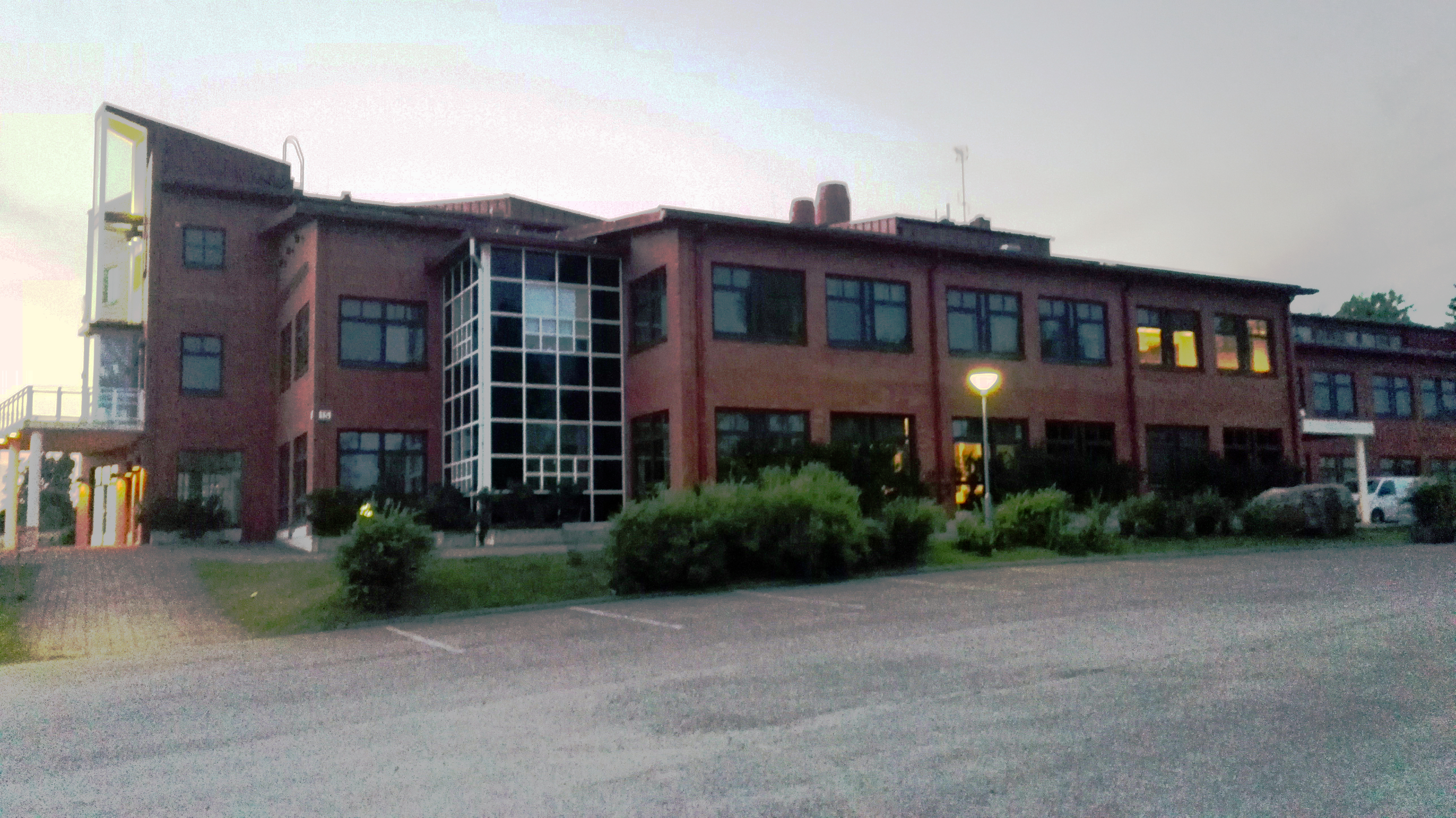 Arkadian yhteislyseo, Klaukkala, Nurmijärvi, Finland.